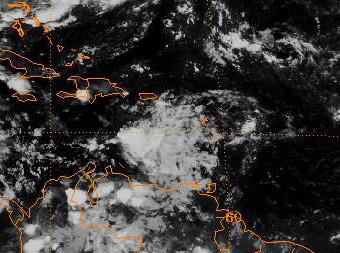 Tropical Storm Jerry (2001) degenerating into a remnant low in the eastern Caribbean Sea on October 9.